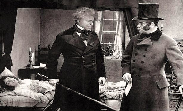 Left to right: Gretchen Hartman, William Farnum, and Hardee Kirkland in the American drama film Les Misérables (1917) - publicity still (cropped)